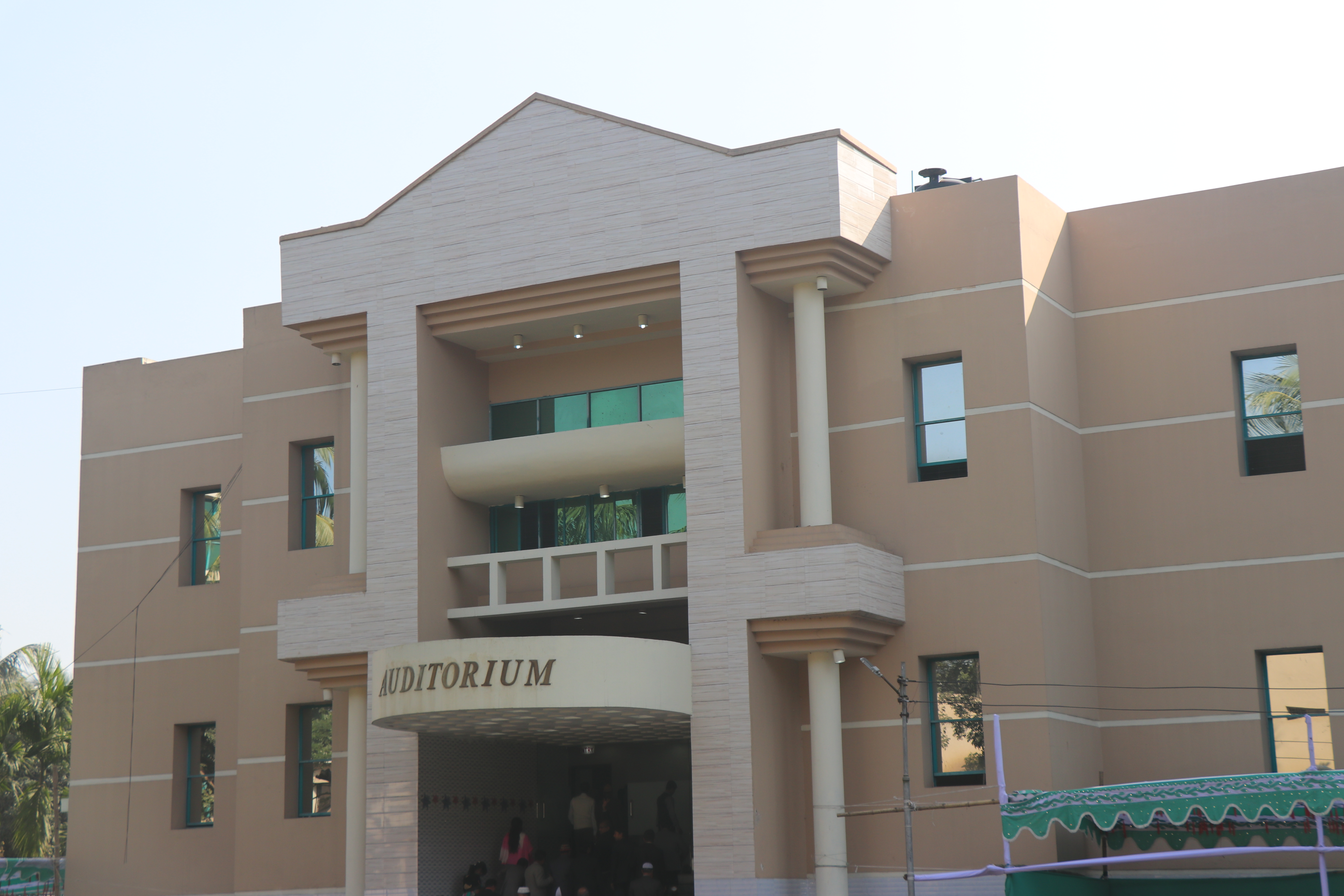 Sheikh Hasina National Youth Center Auditorium